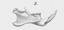 This picture is extracted from "Leche 1886 plate 16.png"; fig. 3. It shows the lower jaw of the Sooretamys angouya.